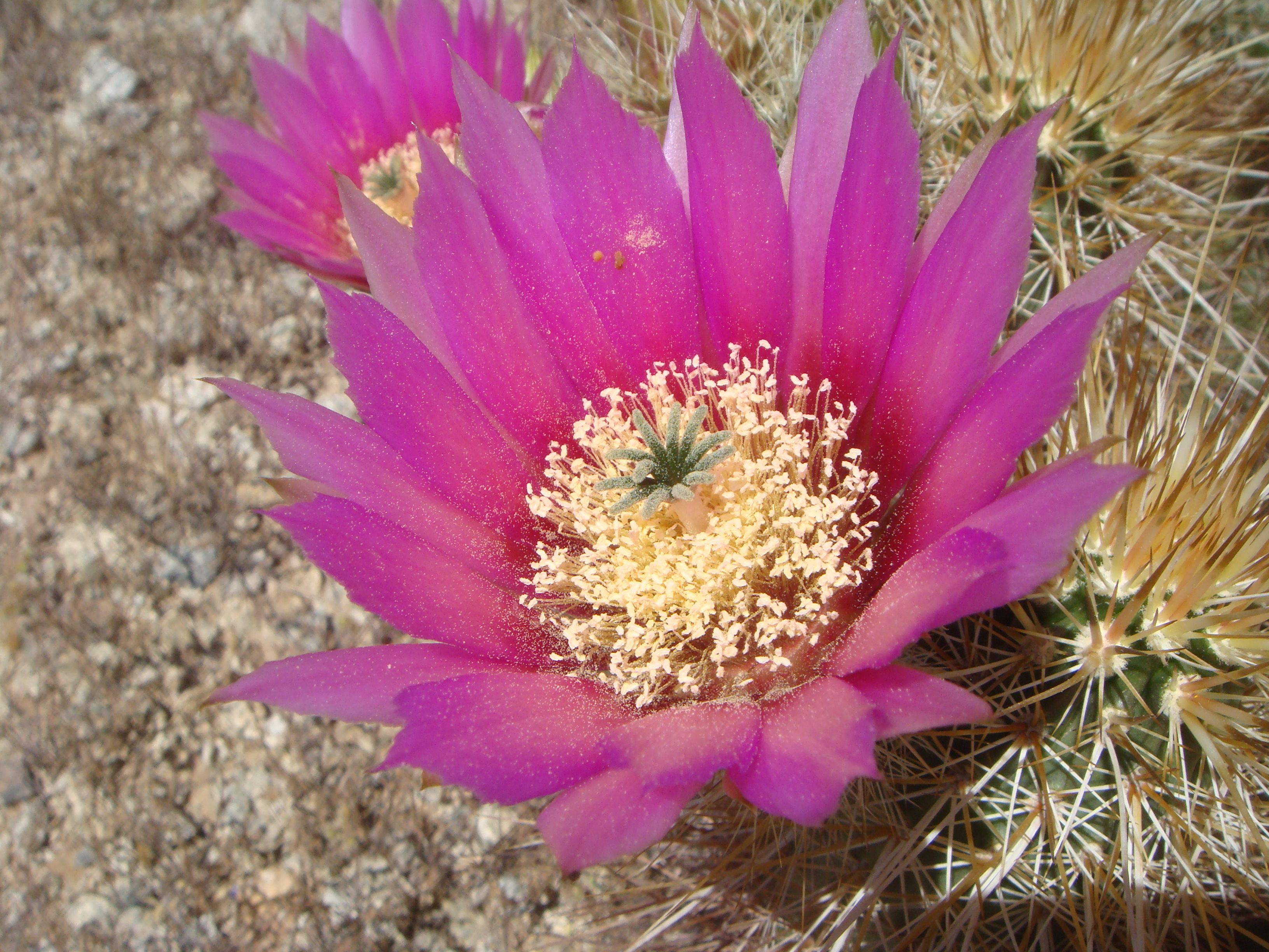 Echinocereus engelmannii, Pima Wash Trail, South Mountain, Phoenix, Arizona